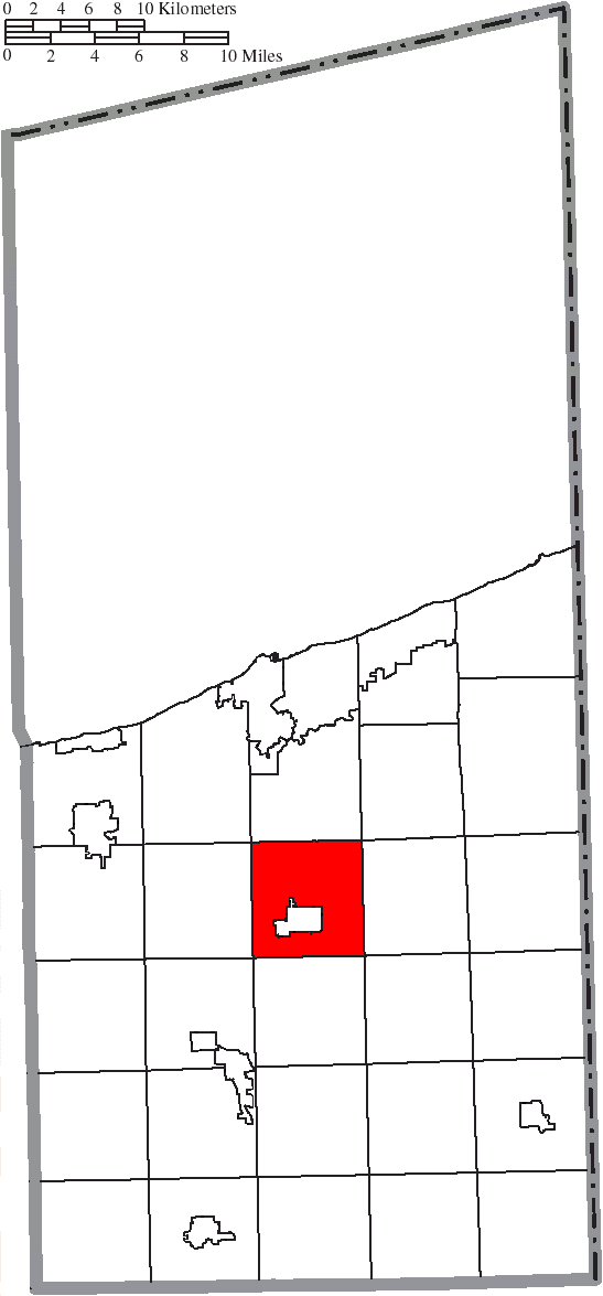 Map of the municipal and township boundaries of Ashtabula County, Ohio, United States, as of the 2000 census, with the location of Jefferson Township highlighted. Township borders are shown only in unincorporated areas in order to differentiate incorporated and unincorporated areas more clearly.